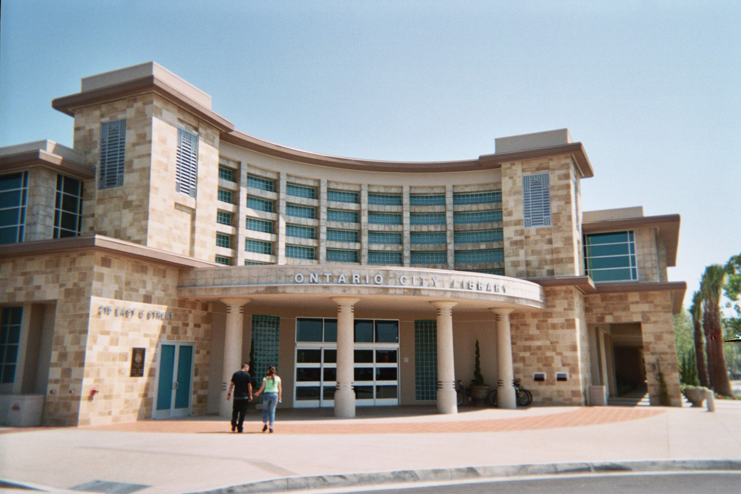 Ovitt Family Community Library (Formally known as Ontario City Library), Ontario, California. Photo taken April 5, 2006 by me. I release all rights.